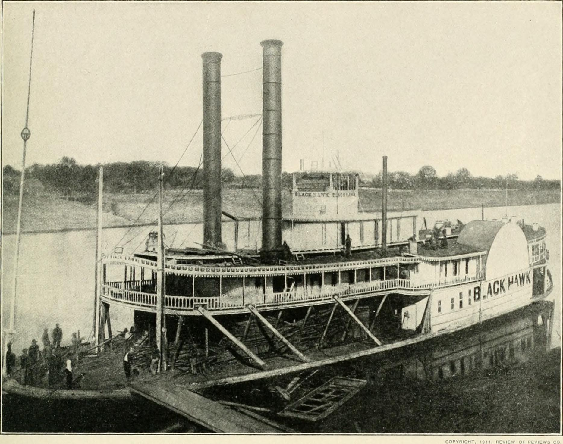 Title: The photographic history of the Civil War : thousands of scenes photographed 1861-65, with text by many special authorities Year: 1911 (1910s) Authors: Miller, Francis Trevelyan, 1877-1959 Lanier, Robert S. (Robert Sampson), 1880- Subjects: United States -- History Civil War, 1861-1865 Pictorial works United States -- History Civil War, 1861-1865 Publisher: New York : Review of Reviews Co. Text Appearing Before Image: \lississippi, entirely un-aware of her coming, every vessel being at anchor, and onlyone, the captured General Bragg, having steam up. Hav-ing successfully run the gantlet, much to the mortification ofboth Farragut and Davis, and to the great glory and honor ofher commander, Isaac X. Brown, formerly of the Inited Statesnavy, the ^irliansas took refuge under the Vicksburg batteries. In order to retrieve the error of having been caught nap-ping, Farragut determined to follow the Arhanms and destroyher if possible. Immediately all of his vessels were ordered toget up their anchors, and with the ram Sumter in company, shehaving been detached by Flag-Officer Davis, the fleet steameddo^^■n the river. It was so dark when they passed the city thatthe Arkansas could not be made out witli any distinctness; butone shot struck her. In thus running the batteries for the fourthtime, Farragut lost five killed and sixteen wounded. Neveragain were any of his ships to appear above Vicksburg. A ( Hi ) Text Appearing After Image: COPYHIGHT, 1 REVIEWS CO. THE TRANSPORT BLACK HAWK AFTER HER FIERY TEST—MAY, 1804